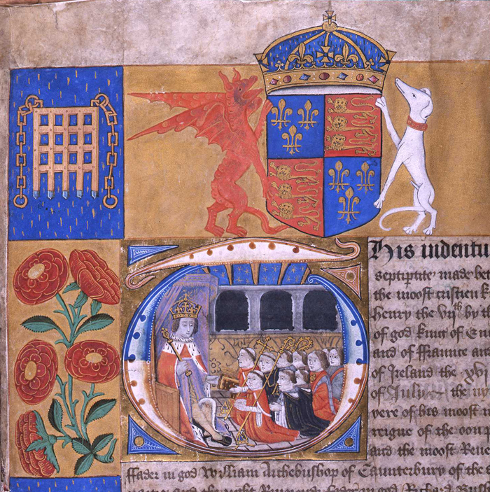 Description: Detail from document connected with the foundation of Henry VII's chantry and almshouses at Westminster. The King sits in the Star Chamber and receives the Archbishop of Canterbury William Warham, Richard Fox, the Bishop of Westminster and clerics associated with Westminster Abbey and St. Paul's Cathedral as well as the Mayor of London. This image is from the collections of The National Archives Image no.5063510. Date: July 16th 1504 Our Catalogue Reference: E 33/2 This image is from the collections of The National Archives. Feel free to share it within the spirit of the Commons. For high quality reproductions of any item from our collection please contact our image library.